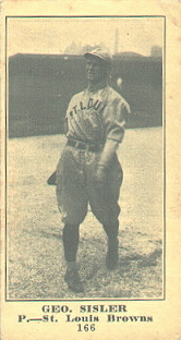 1916 baseball card D350 George Sisler